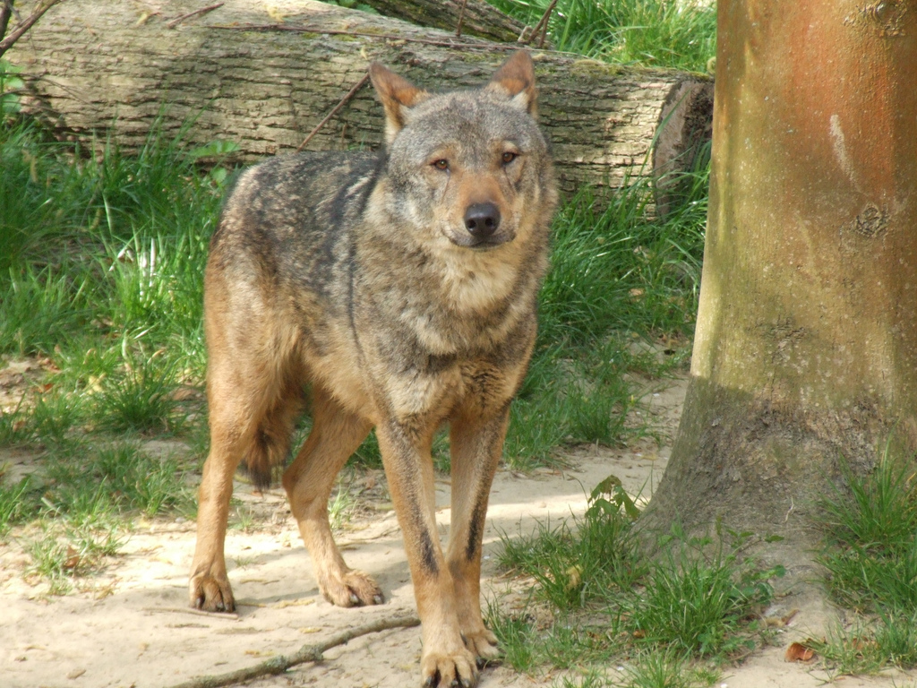 An Iberian wolf (Canis lupus signatus) in Kerkrade's Zoo (Netherlands).